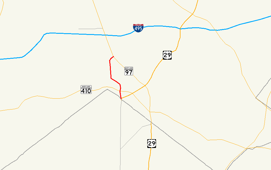 Map of Maryland 390